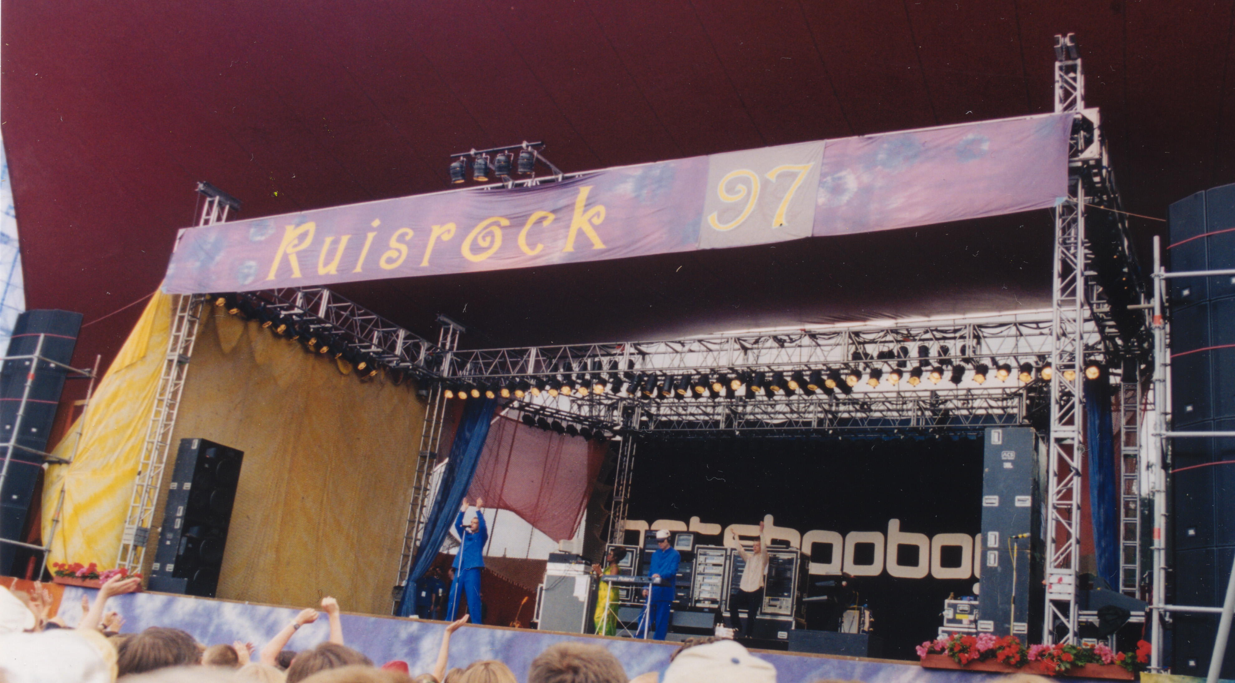 Pet Shop Boys performing live in Turku Finland 1997